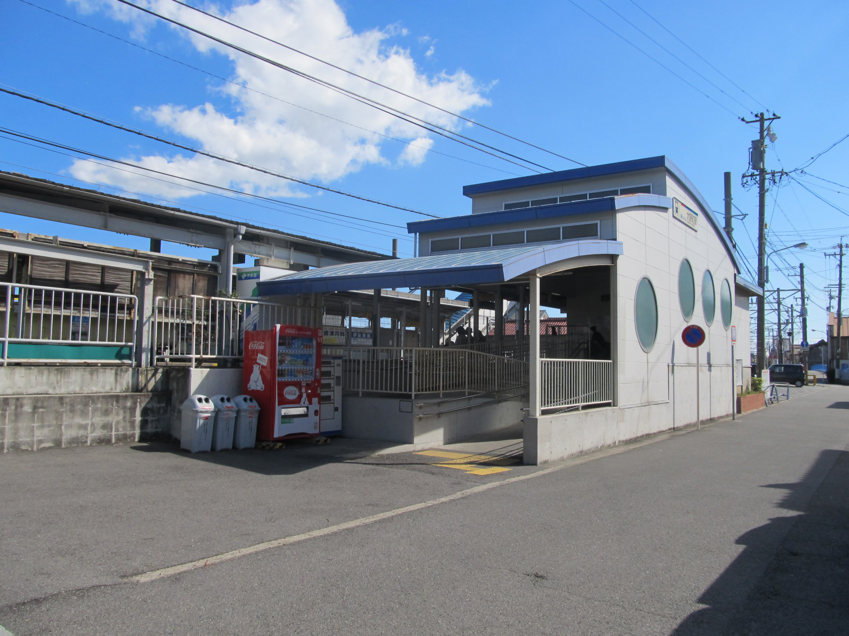 Nagoya Railroad Tokoname Line Ōnomachi Station Building